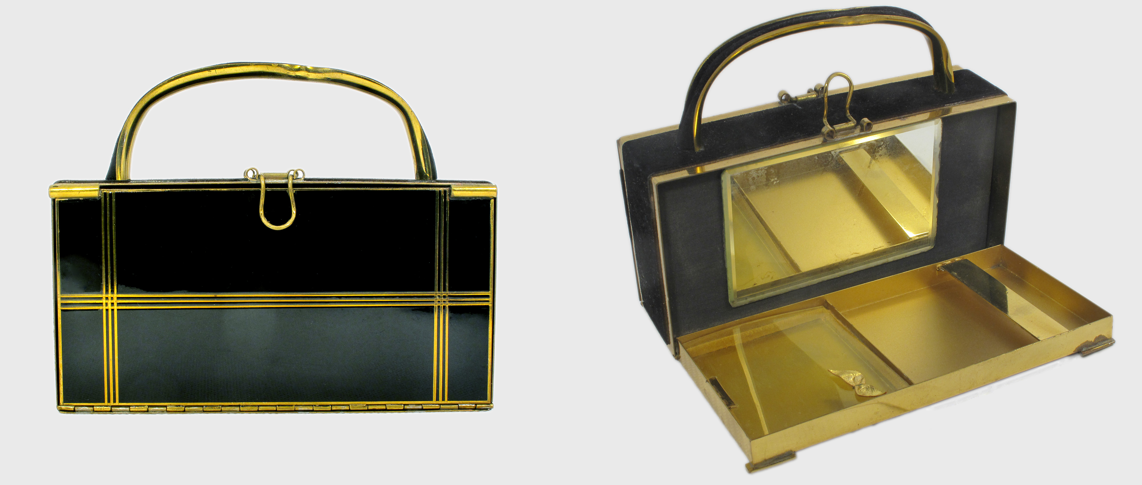 Black metal evening bag, early-mid 20th century, United States. One side is open, showing a mirror and a plastic cover for powder, and space for a powder puff. The other side opens to a container for money, lipstick, etc. The black strip around the center of the bag is a sort of velveteen.